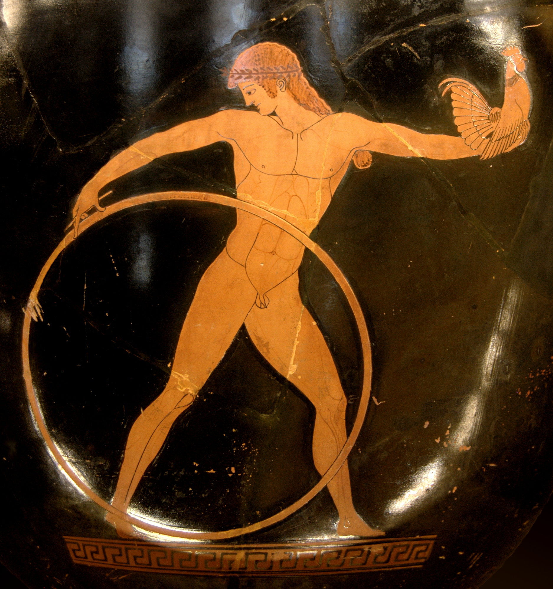 Ganymede holding a hoop, symbol of his youth, and a cock, a traditional pederastic gift. Side A from an Attic red-figure bell-krater, ca. 500–490 BC. Side B: Zeus in pursuit.